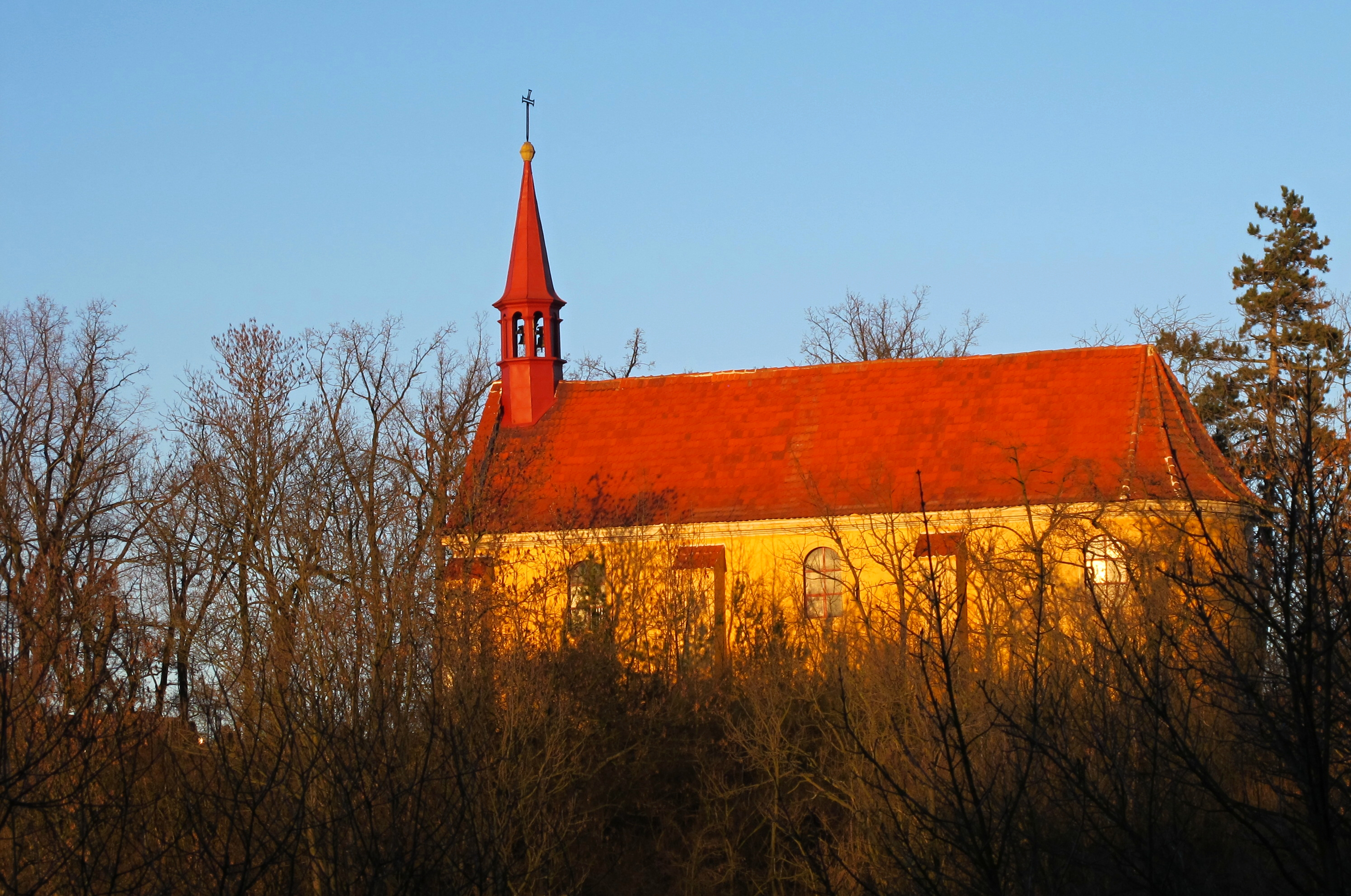 cemetery Church of the Exaltation of the Holy Crosstrees, Dobříš in Příbram District